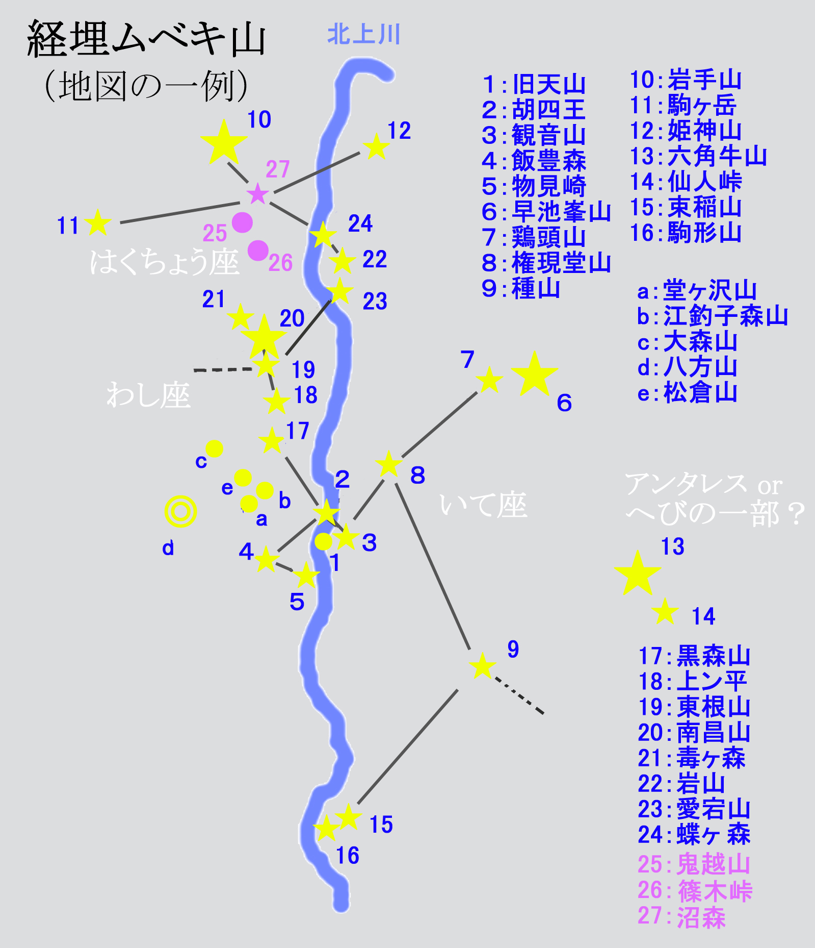 Kenji's maikyo map